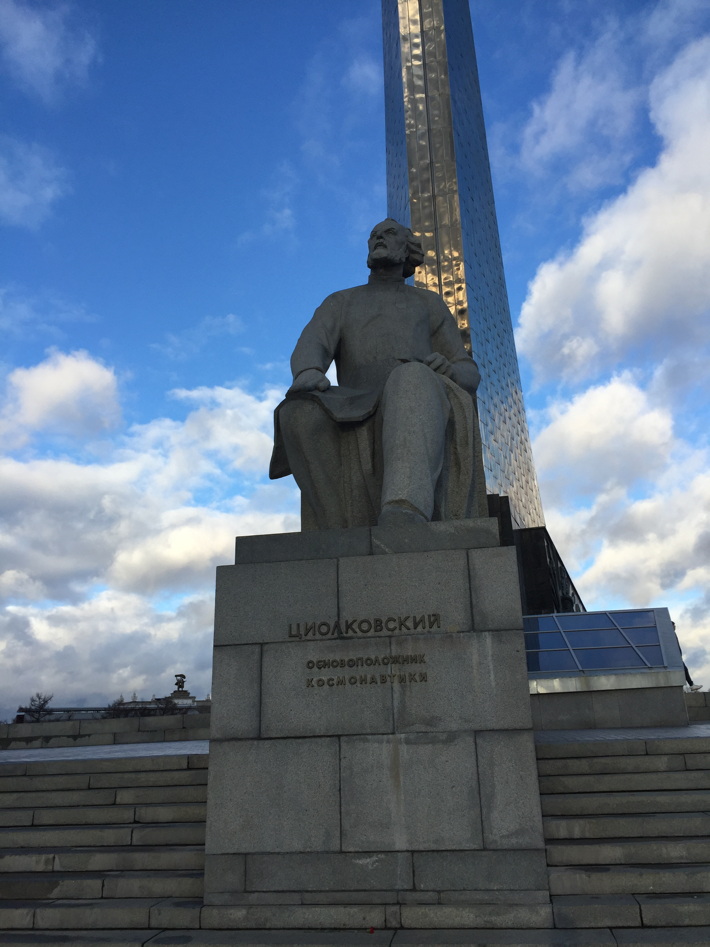 Monument to the Conquerors of Space and statue of Konstantin Tsiolkovsky.